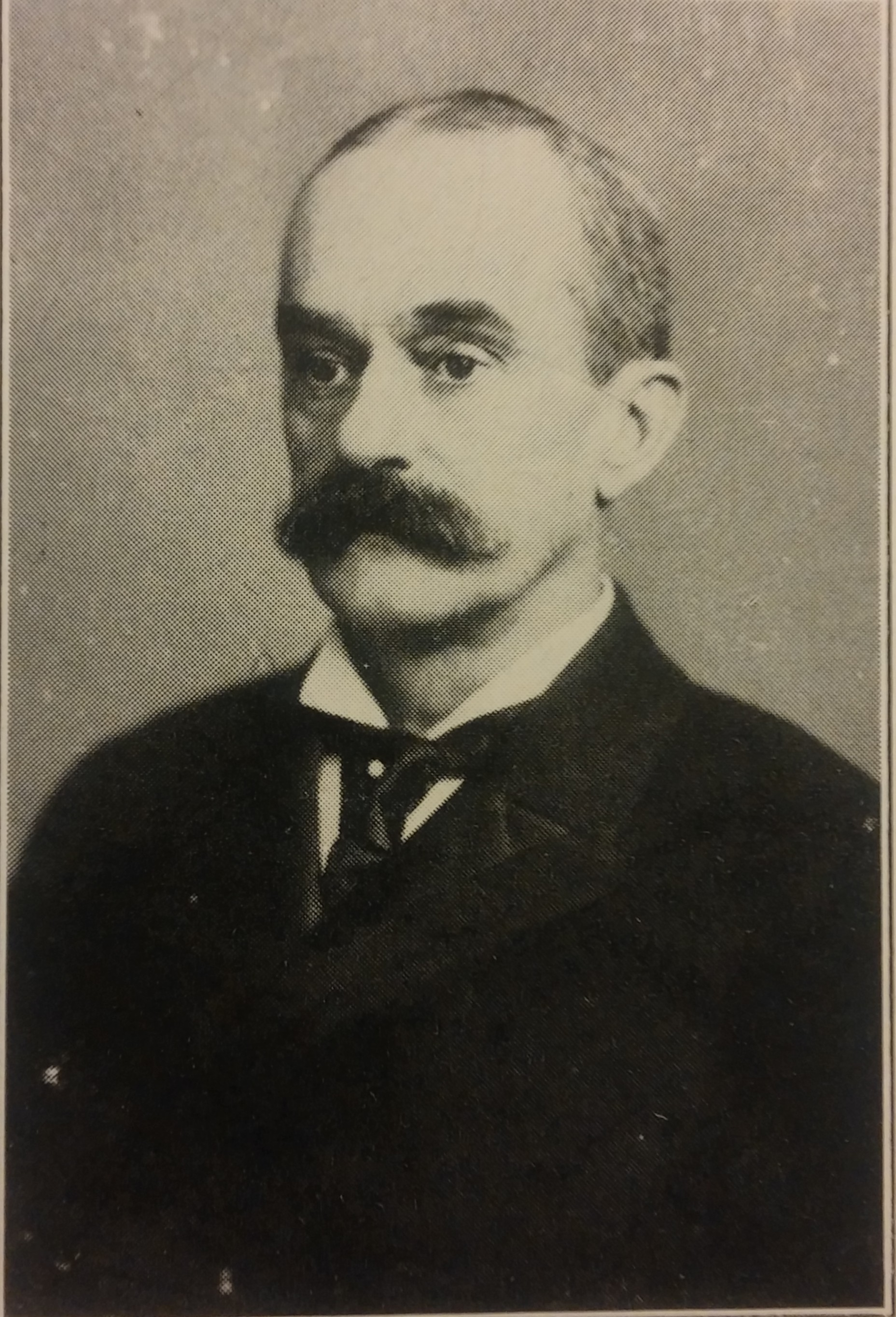 Edward Porter Williams, Co-Founder of Sherwin Williams Paint Company